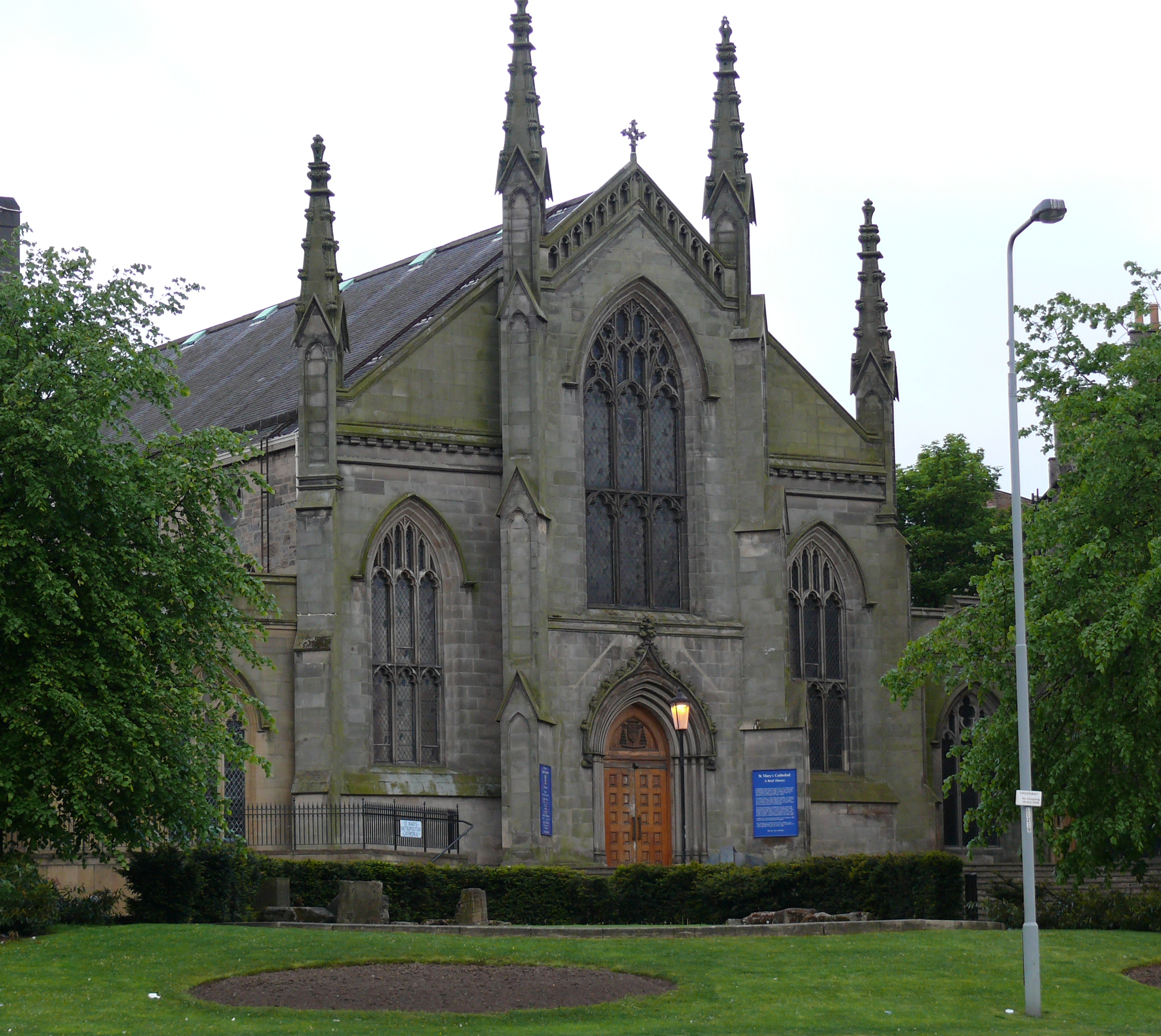 The Metropolitan Cathedral Church of Our Lady of the Assumption (St Mary's Cathedral, Edinburgh) is a Roman Catholic cathedral located in Edinburgh near York Place.